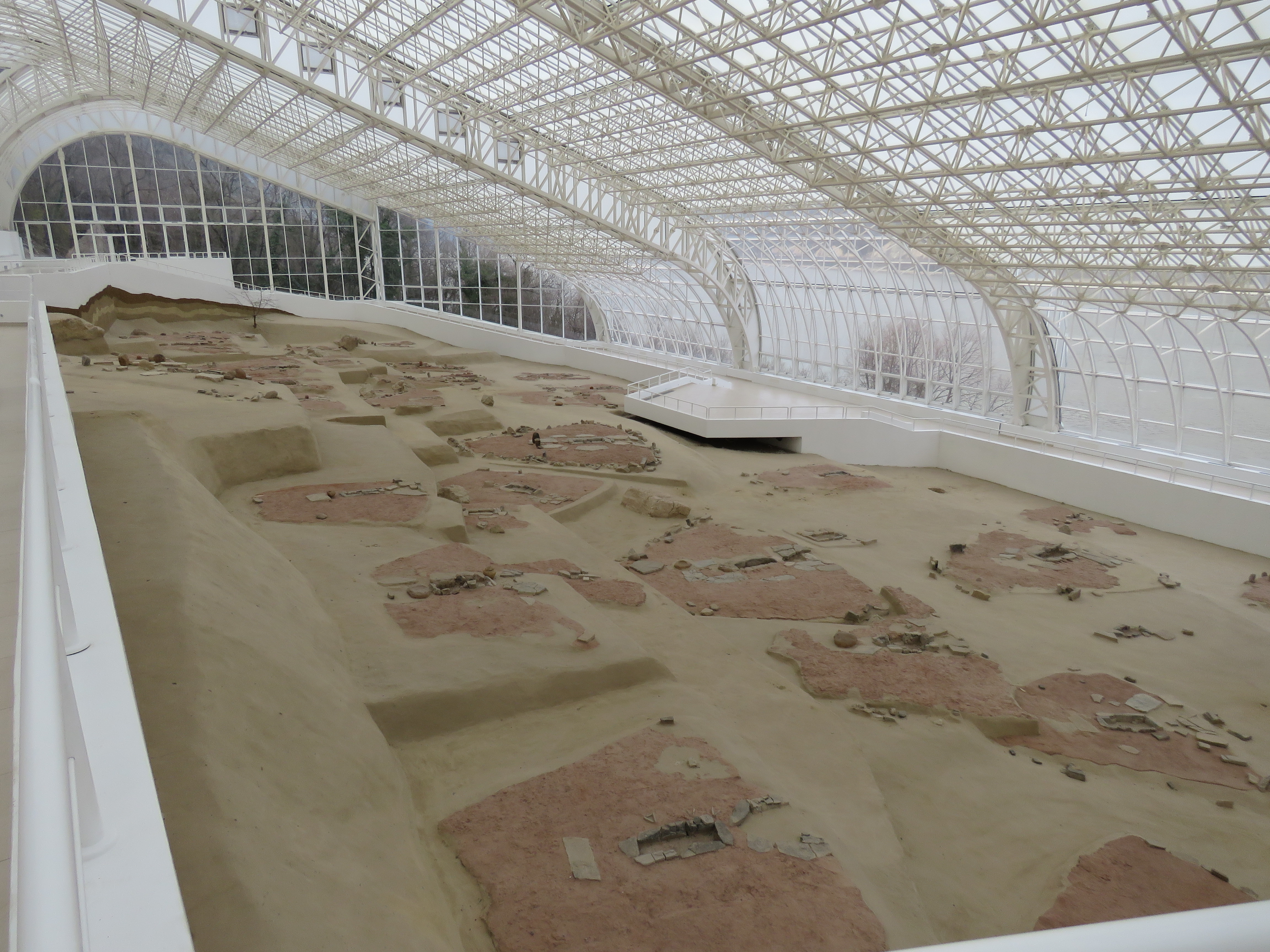 Museum Lepenski Vir, house foundations